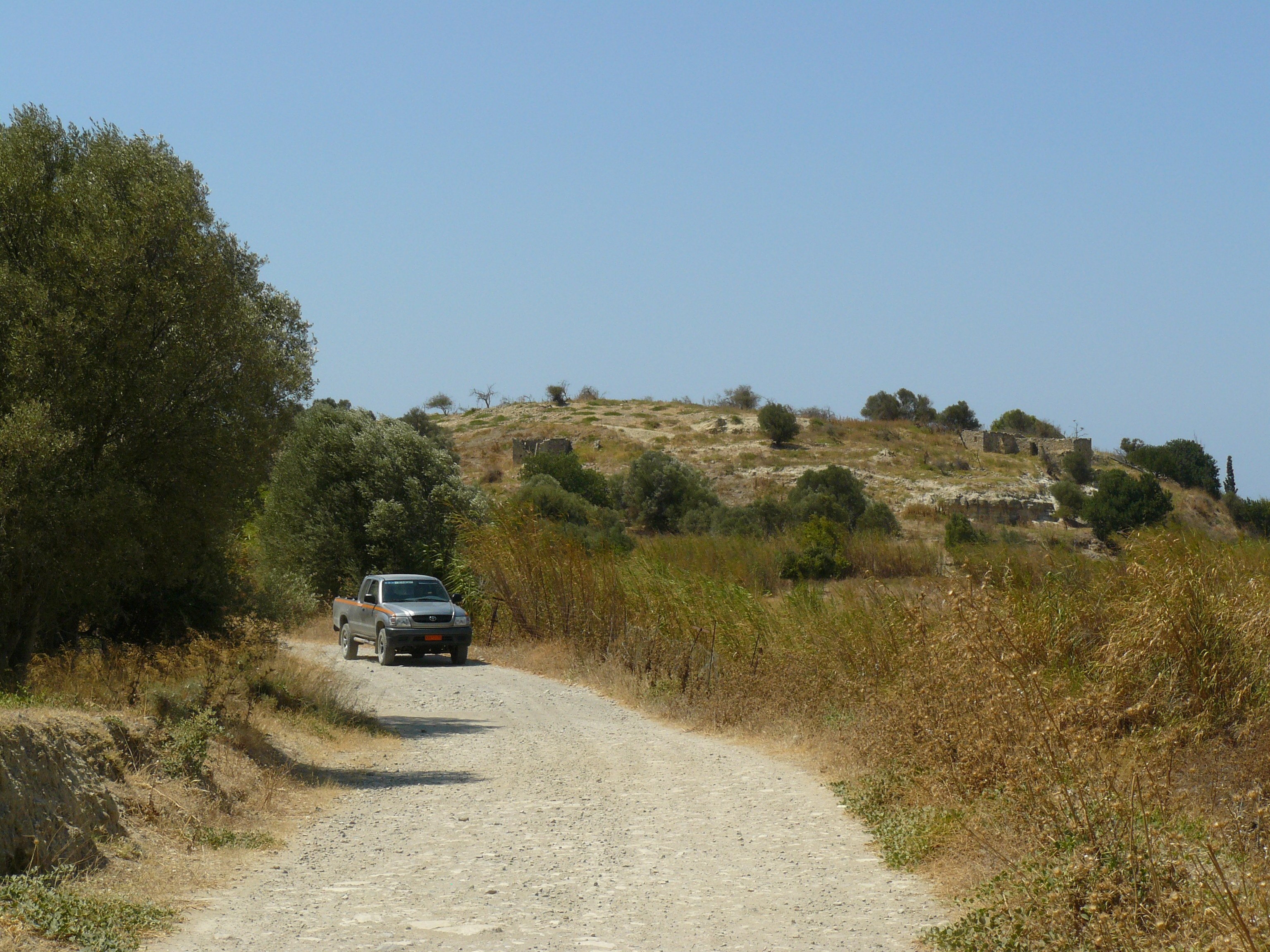 Ruins of the village of Agia Triada, Crete.